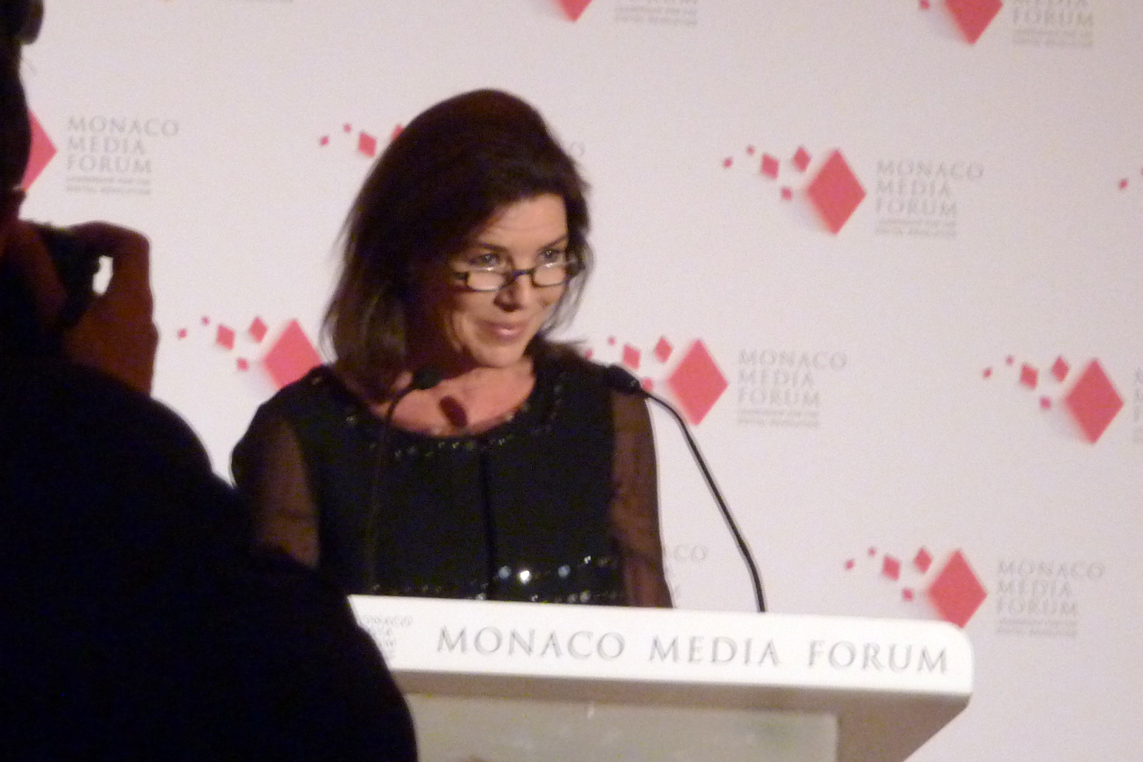 Princess Caroline of Hanover, at the Monaco Media Forum Awards ceremony in Monaco (Principality) November 12, 2009, a moment before awarding the prize to Jimmy Wales. The Princess gave a short lecture on the importance of Media in modern society, and then awarded Jimmy Wales with the annual prize.